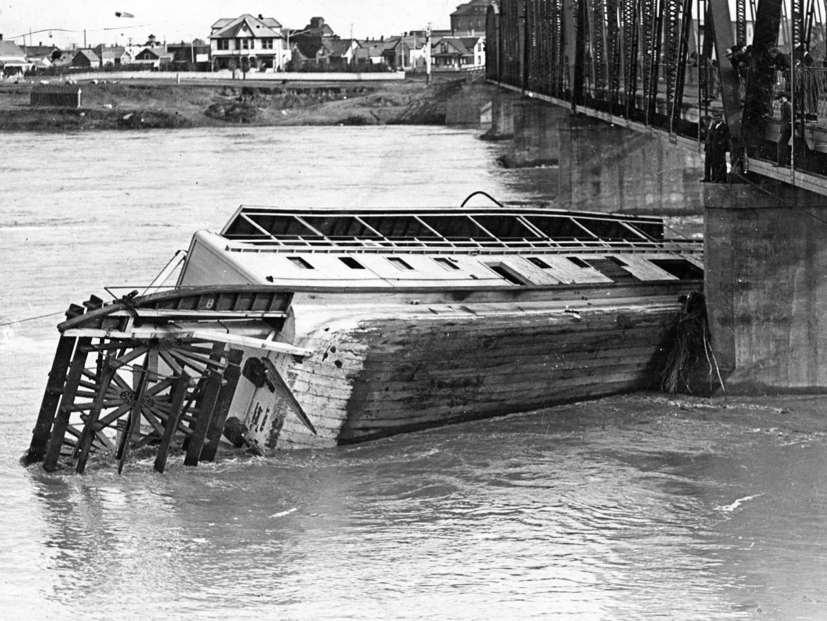 Wreck of the paddlewheel steamship "SS City of Medicine Hat" against the Traffic Bridge in Saskatoon, Saskatchewan, Canada.